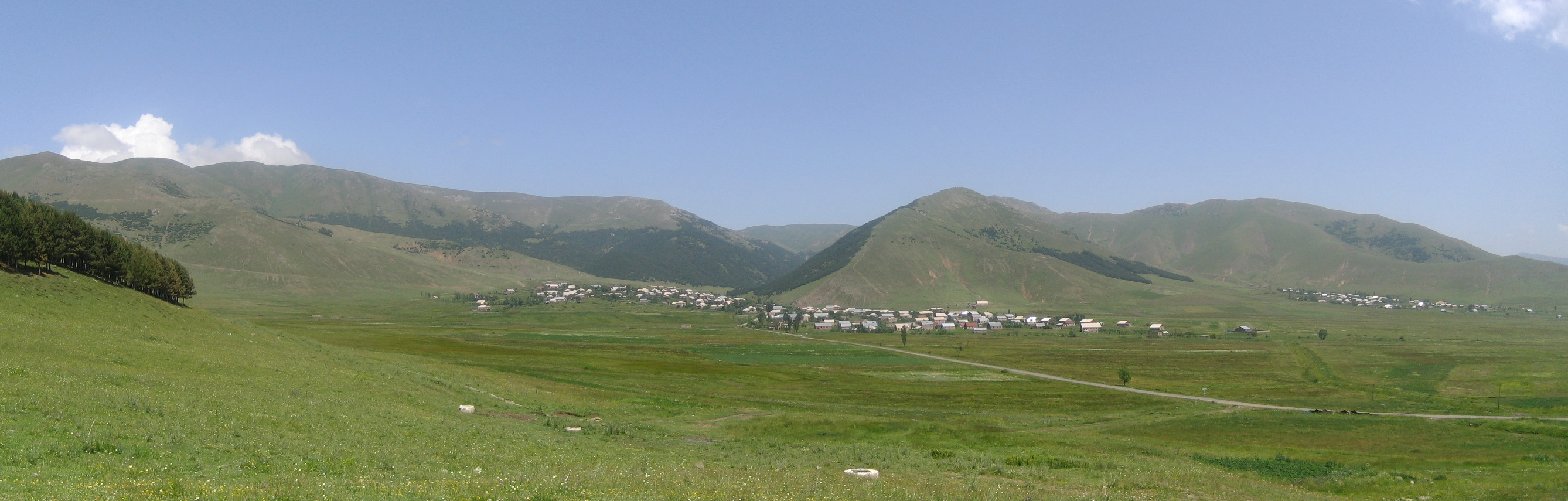 A panorama of the Lusagyugh village in the Aragatsotn region of Armenia.